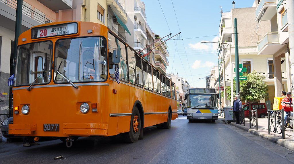 excursion trolleybus ZiU-9 No3077 at historic route 20 at Piraeus in Greece